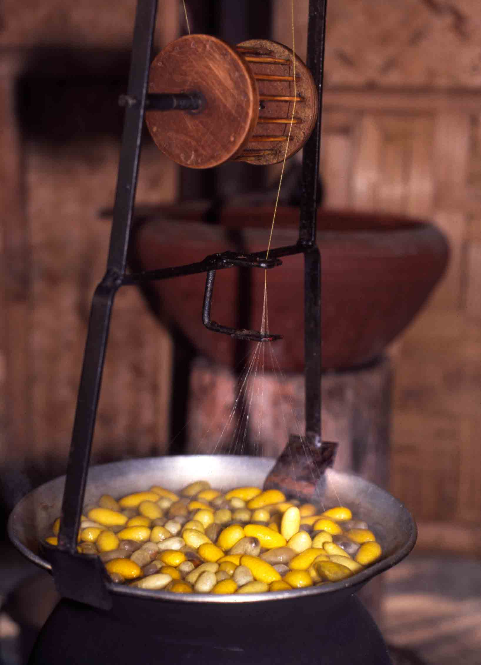 Silk cocoons boiling in water while fibres are extracted. Hua Hin, Thailand, December 2003.